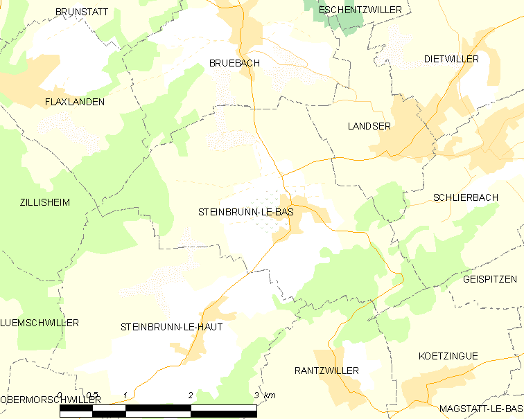 Map of French municipality